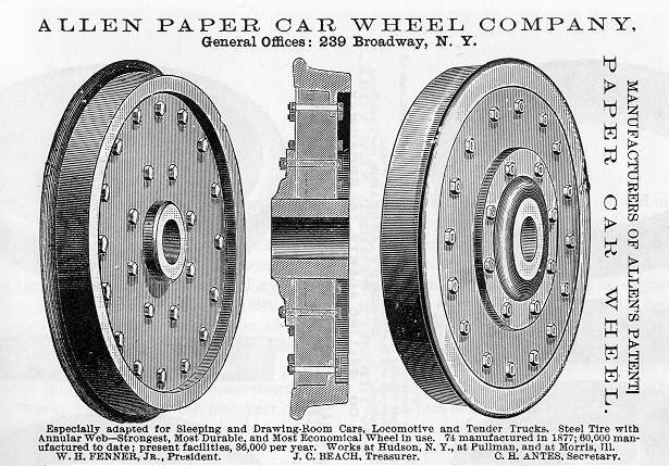 Paper car wheels consisted of compressed paper sandwiched between steel plates (note the rivets on the wheel face) pressed into a flanged rim. The thought was that it produced a better and quieter ride, but they often failed resulting in serious derailments.